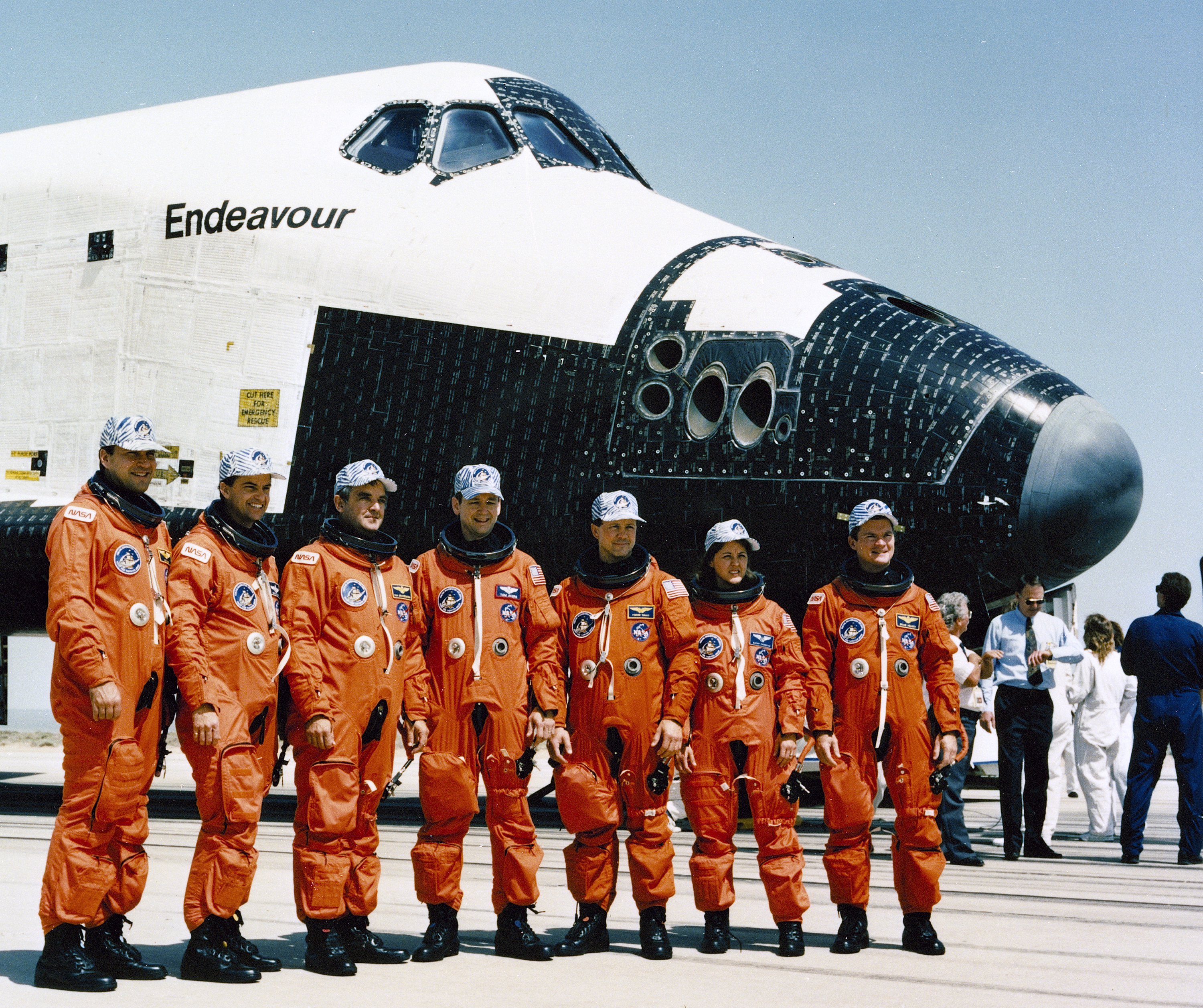 The STS-49 crew members pose near Endeavour after landing. Pictured left to right are: Richard J. Hieb, mission specialist; Kevin P. Chiltin, pilot; Daniel C. Brandenstein, commander; and mission specialists Thomas D. Akers, Pierre J. Thuot, Kathryn C. Thornton, and Bruce E. Melnick.